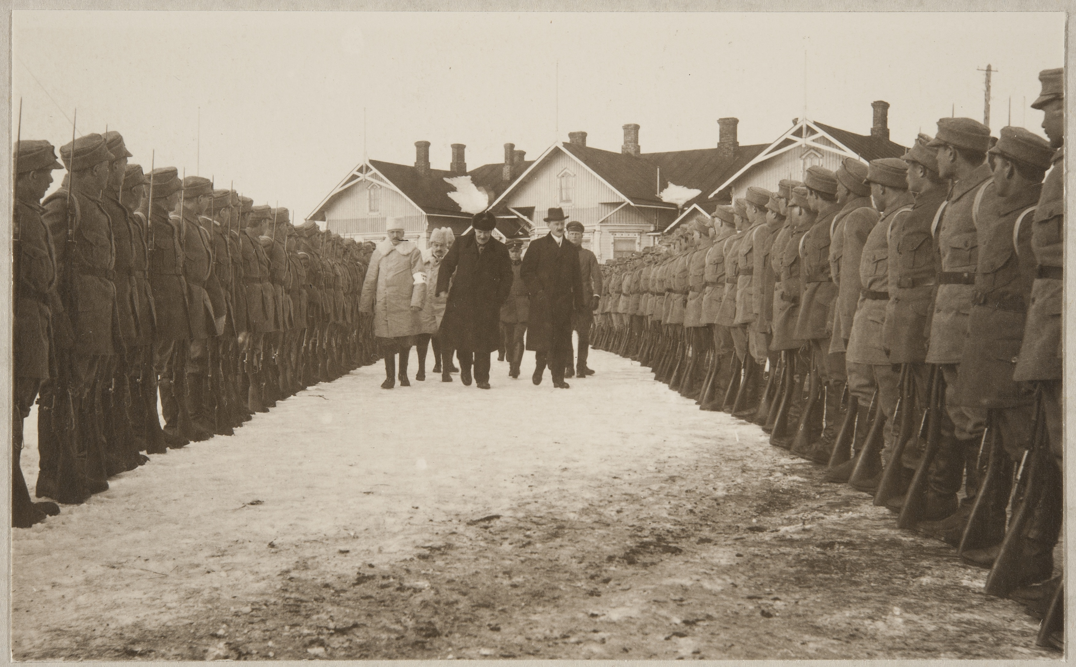 Prime minister Svinhufvud escaped from Helsinki controlled by Finnish bolsheviks via Estonia, Germany, and Sweden to Finland together with his government senator Castren.